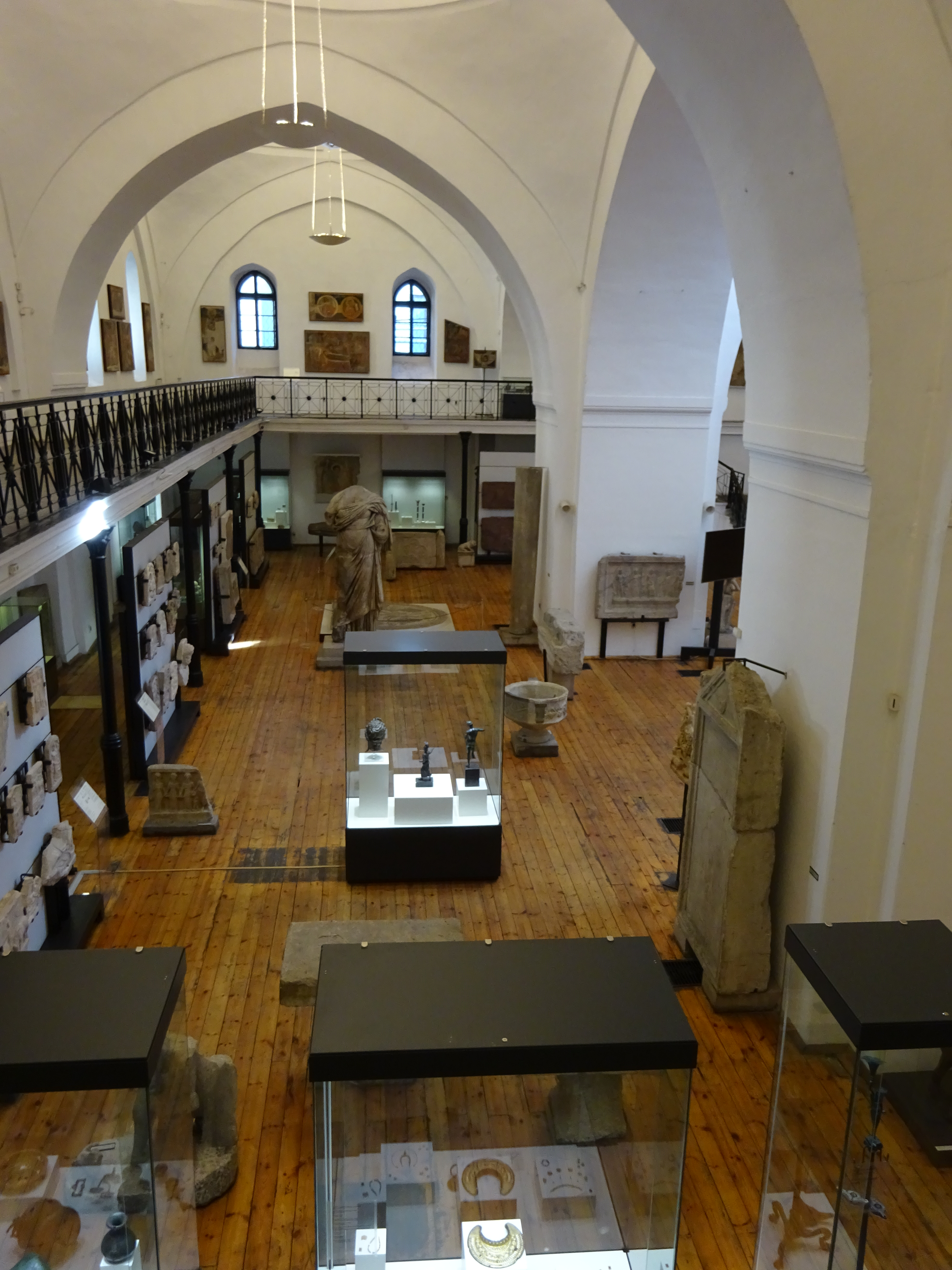 Interior of the National Archaeological Museum in Sofia, Bulgaria